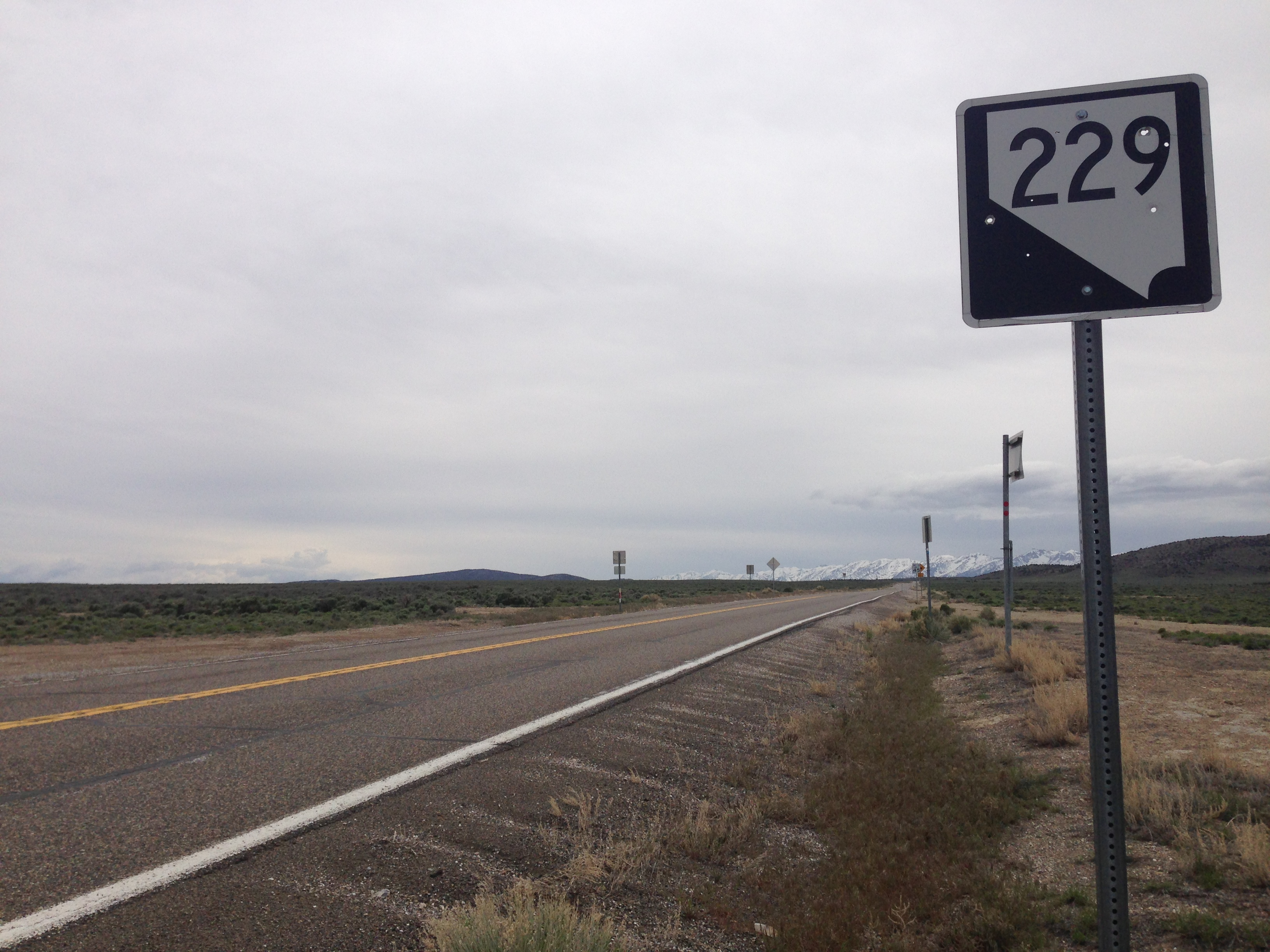 Sign along Nevada State Route 229 westbound just east of U.S. Route 93